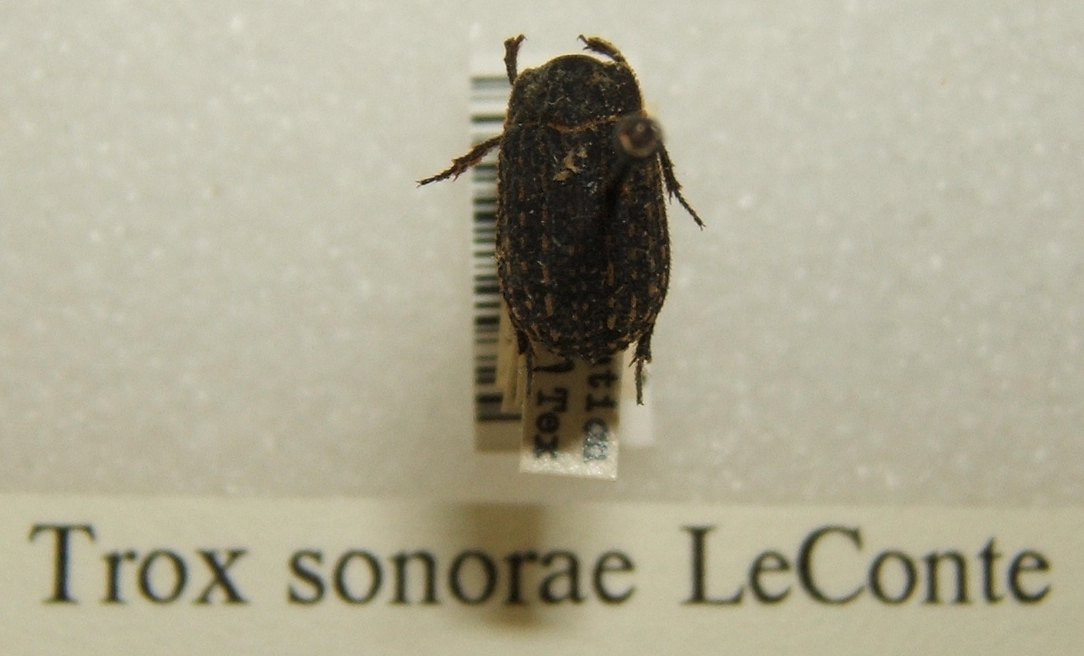 Trox sonorae adult taken by Shawn Hanrahan at the Texas A&M University Insect Collection in College Station, Texas. Cropped version: Trox sonorae sjh.cropped.jpg